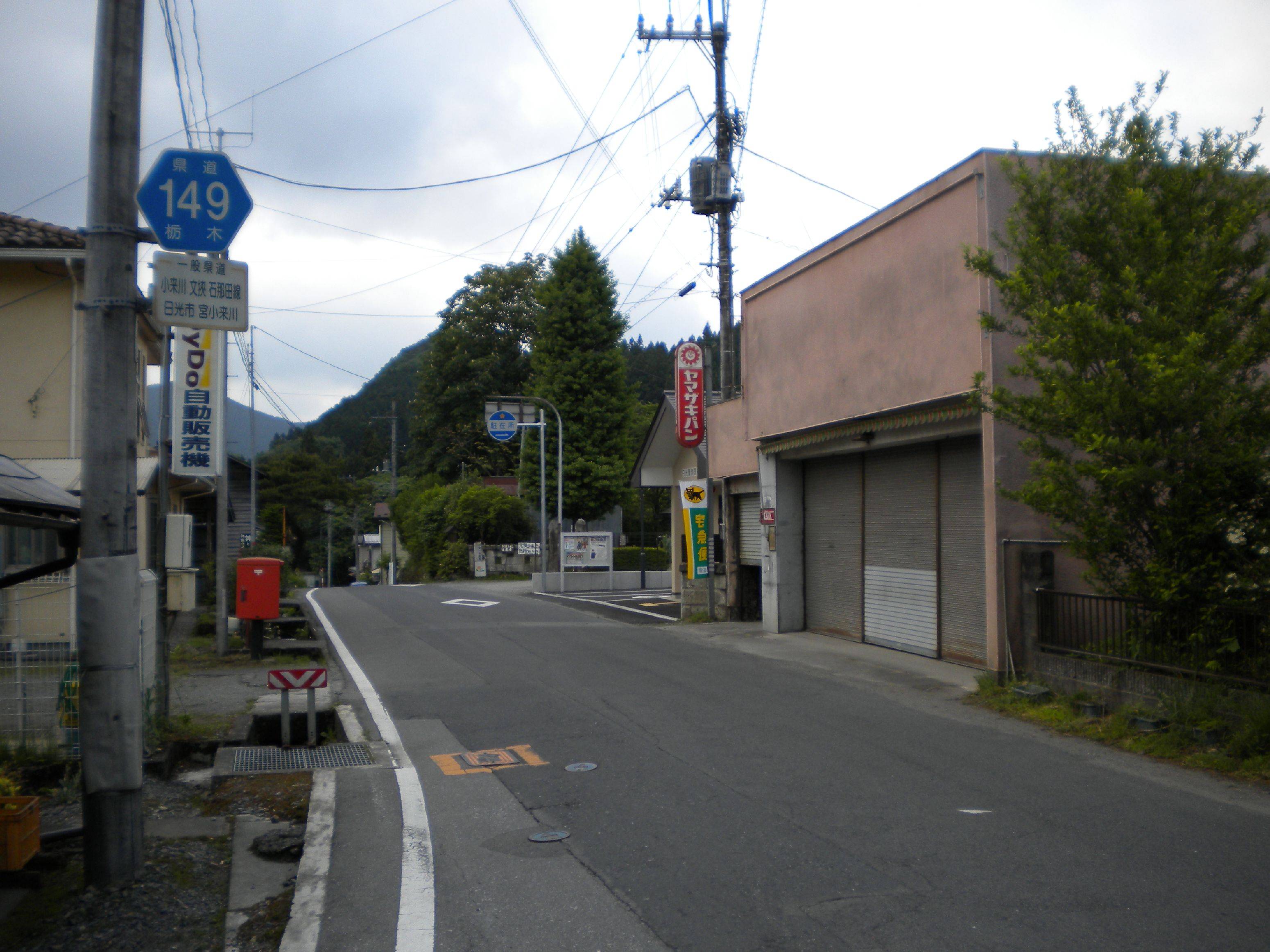 The Tochigi Prefectural Road Route 149 in Miyaokorogawa, Nikko City